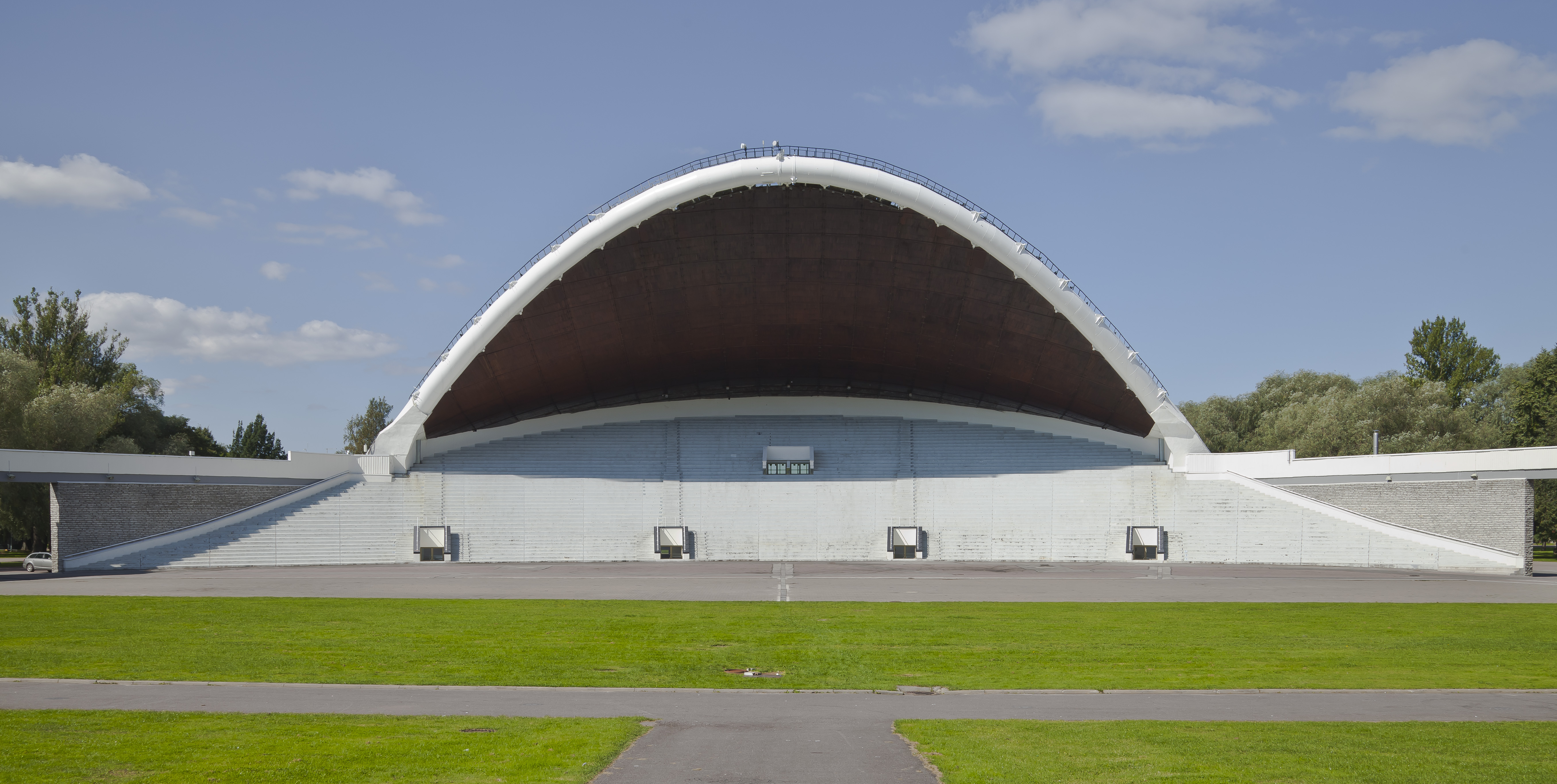 Tallinn Song Festival Grounds, Tallinn, Estonia